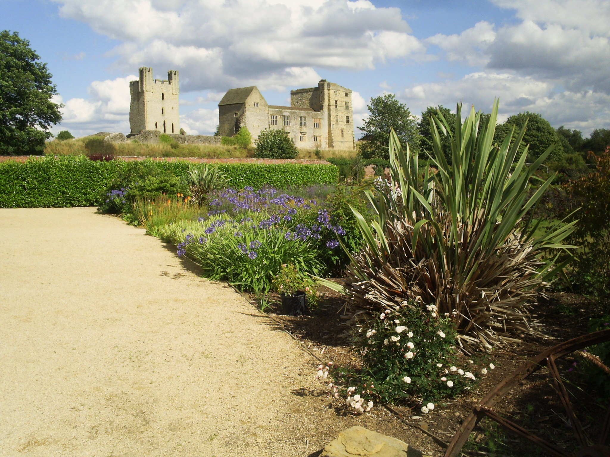 Helmsley Castle walled garden. The castle dates from the 1180s built on the site of an earlier stronghold. The buildings to the right are residential apartments added in the 1500s.